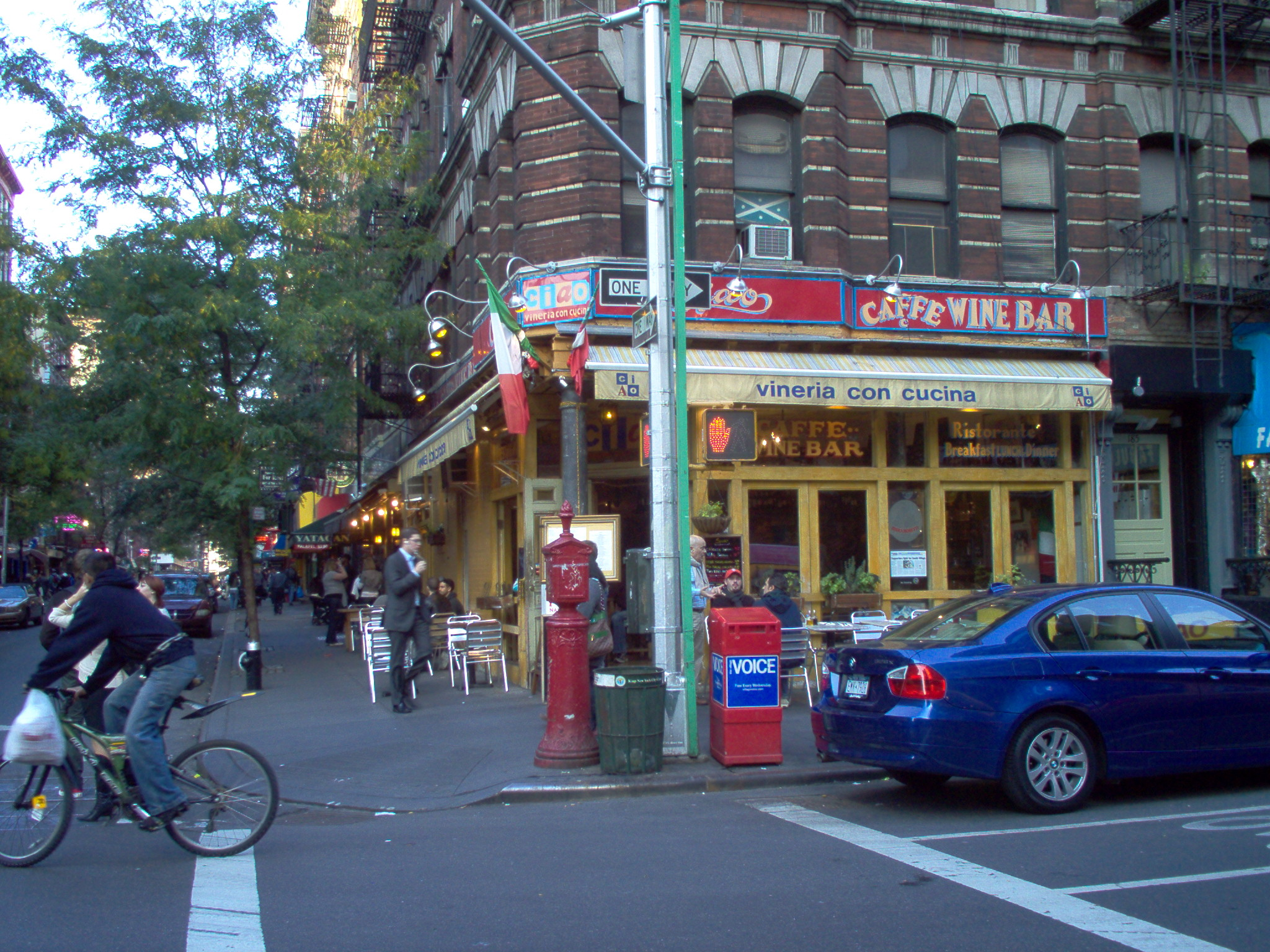 This photo is of Wikis Take Manhattan goal code F31, Greenwich Village storefront.